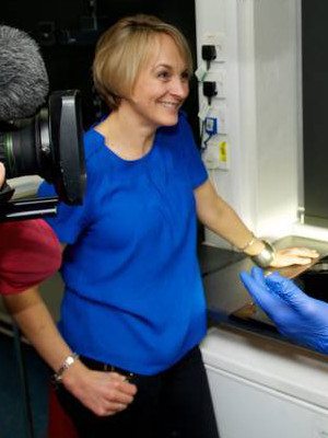 crop of Louise Minchin interviewing a forensic scene investigator for 'Crime and Punishment' on BBC1.